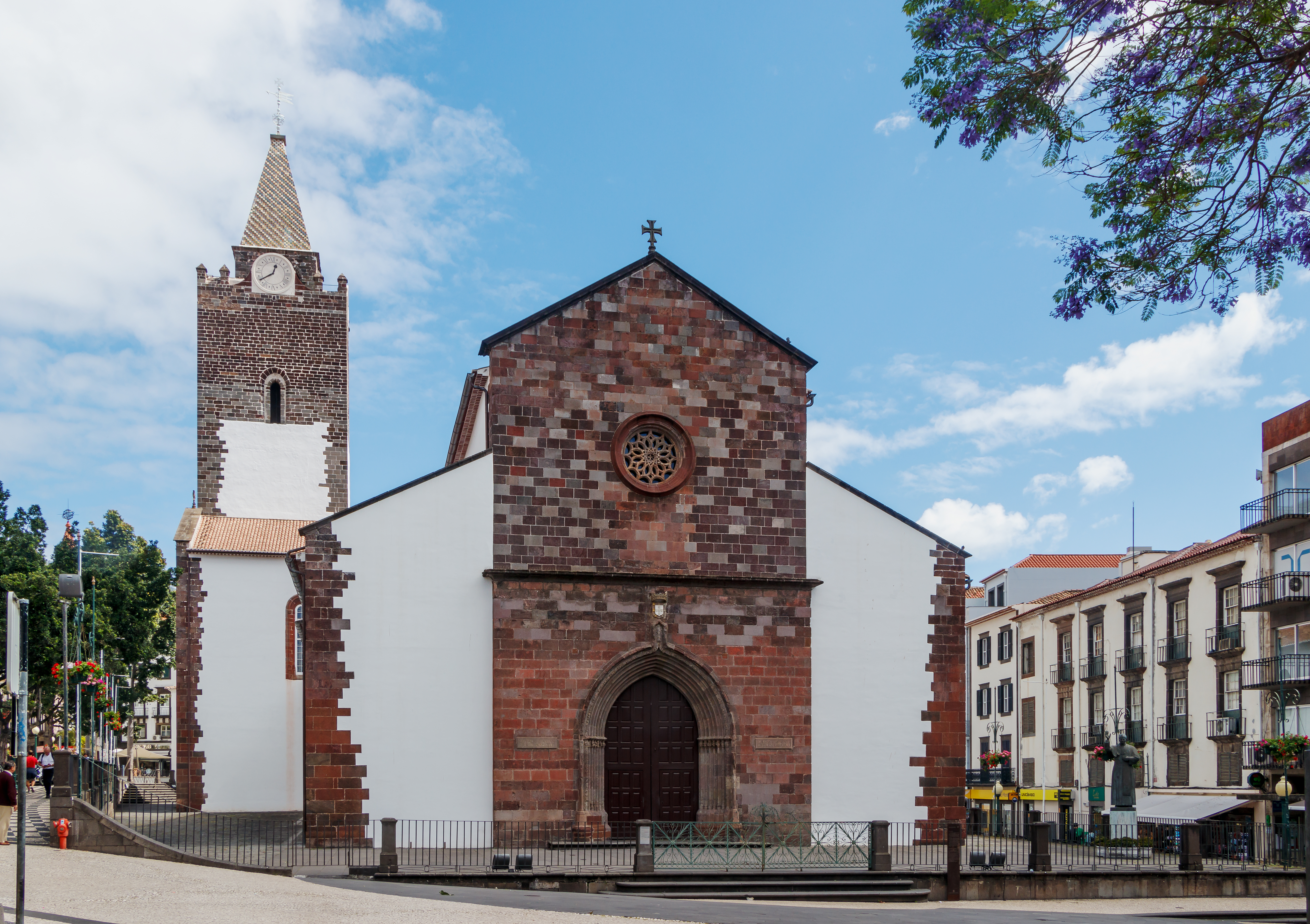 Facade of theCathedral of Our Lady of the Assumption, Funchal, Madeira, Portugal.